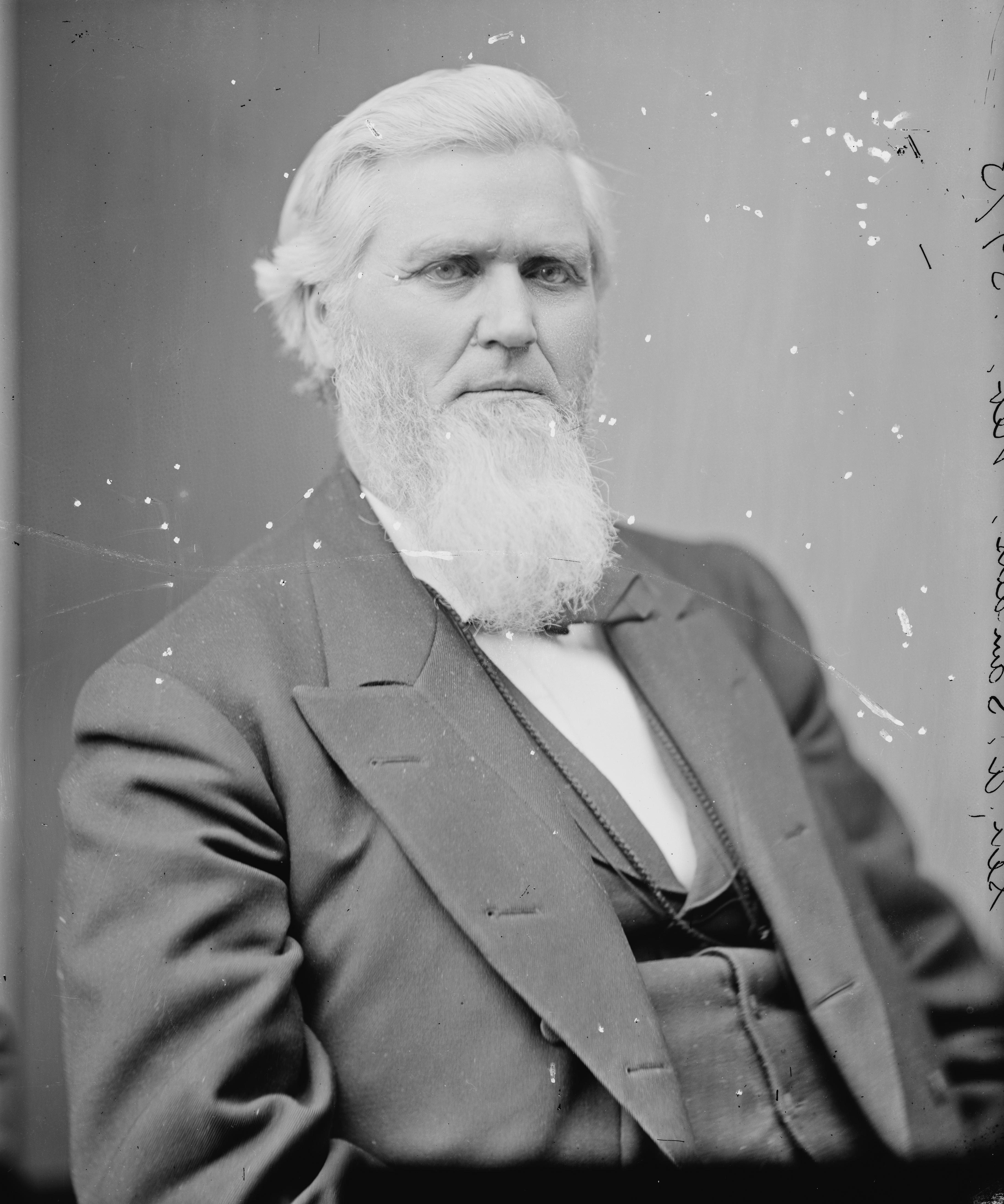 Alvin Saunders. Library of Congress description: "Saunders, Hon. Alvin of Neb.".